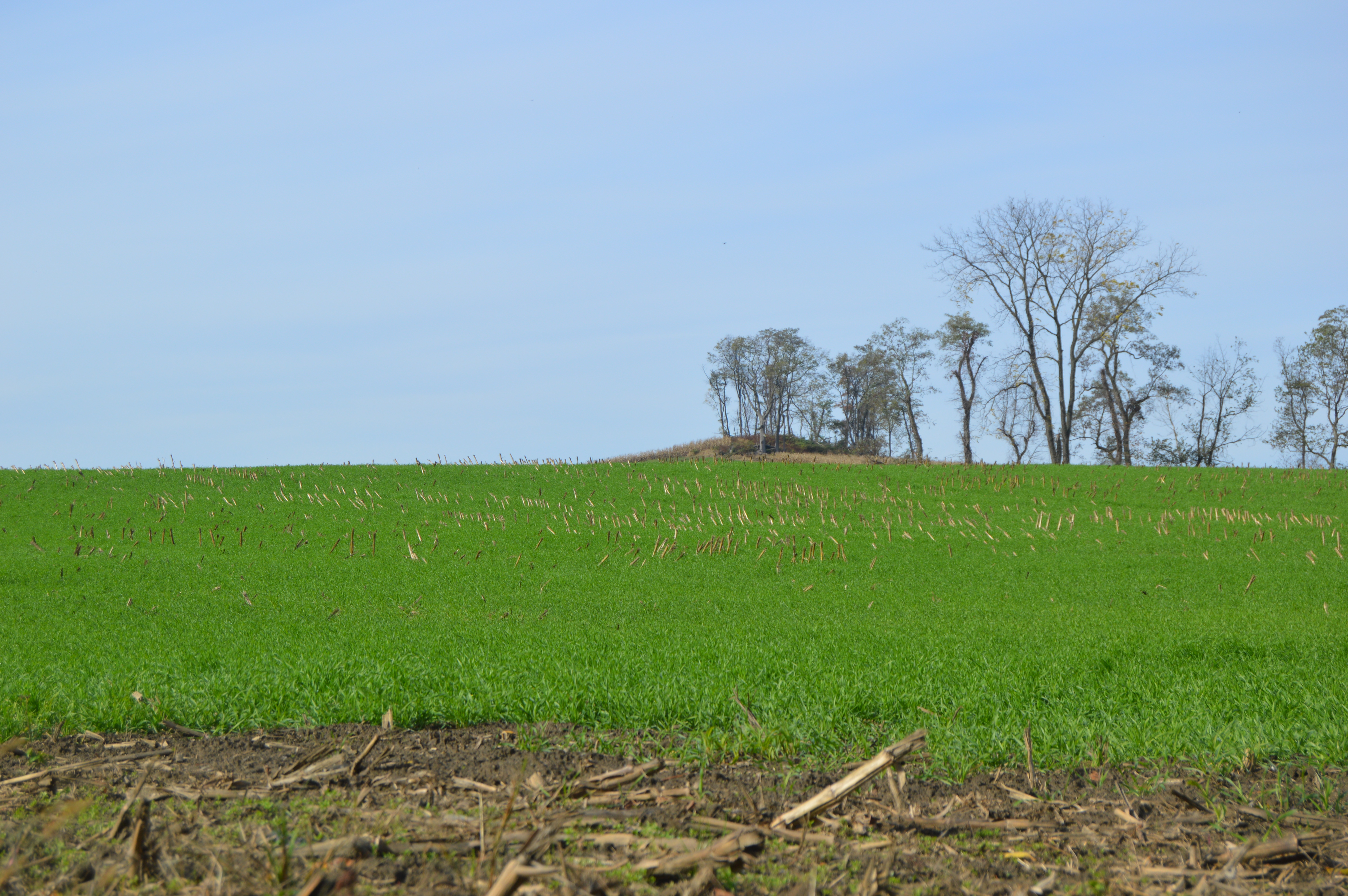 Overview of the fields at the Conestoga Town, looking west from Safe Harbor Road north of Indian Marker Road in Manor Township, Lancaster County, Pennsylvania, United States. Once a village of the Conestoga Indians, it is now a significant archaeological site, and it has been listed on the National Register of Historic Places.